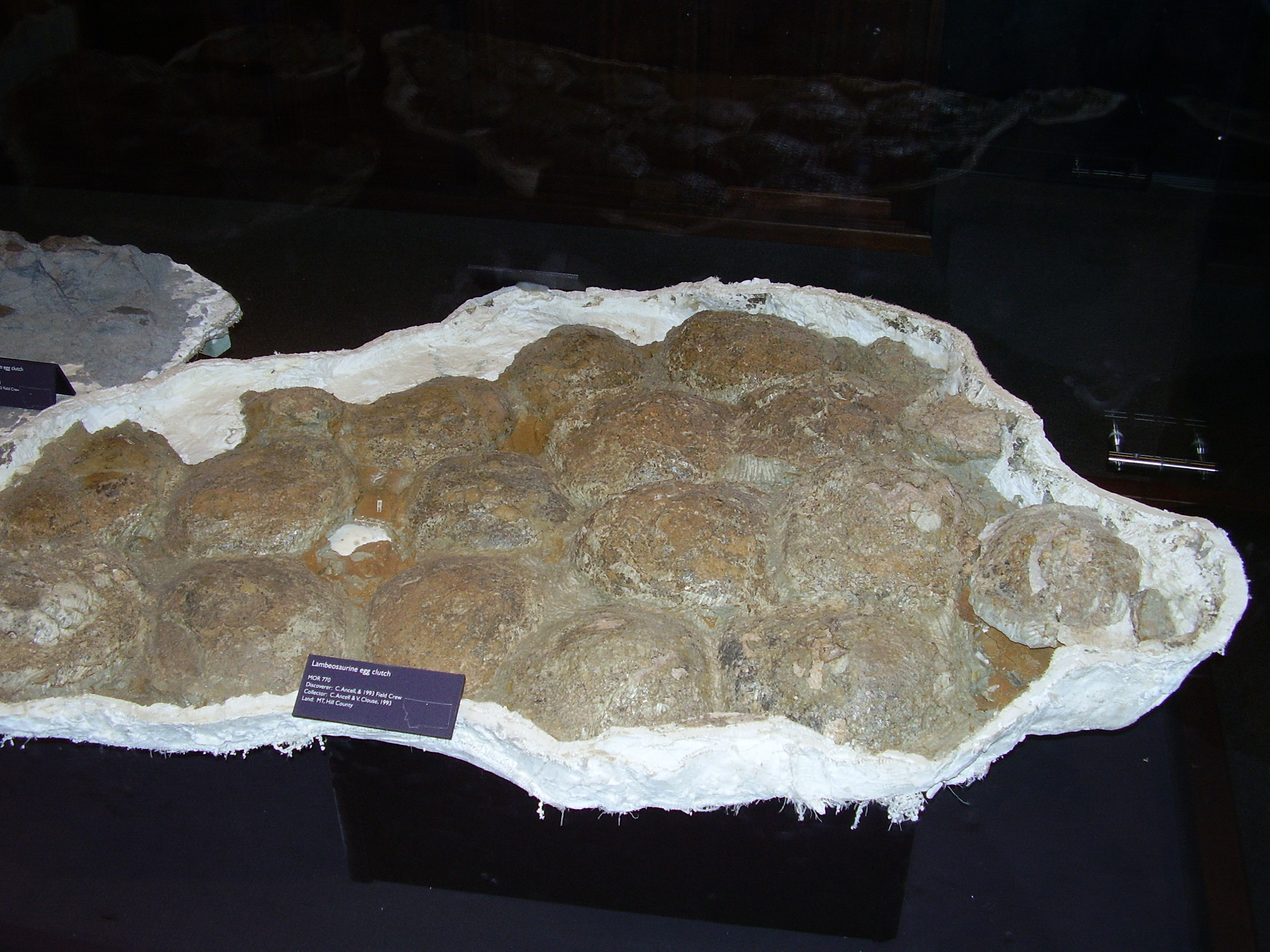 Lambeosaurinae nest with eggs (MOR, Bozeman)